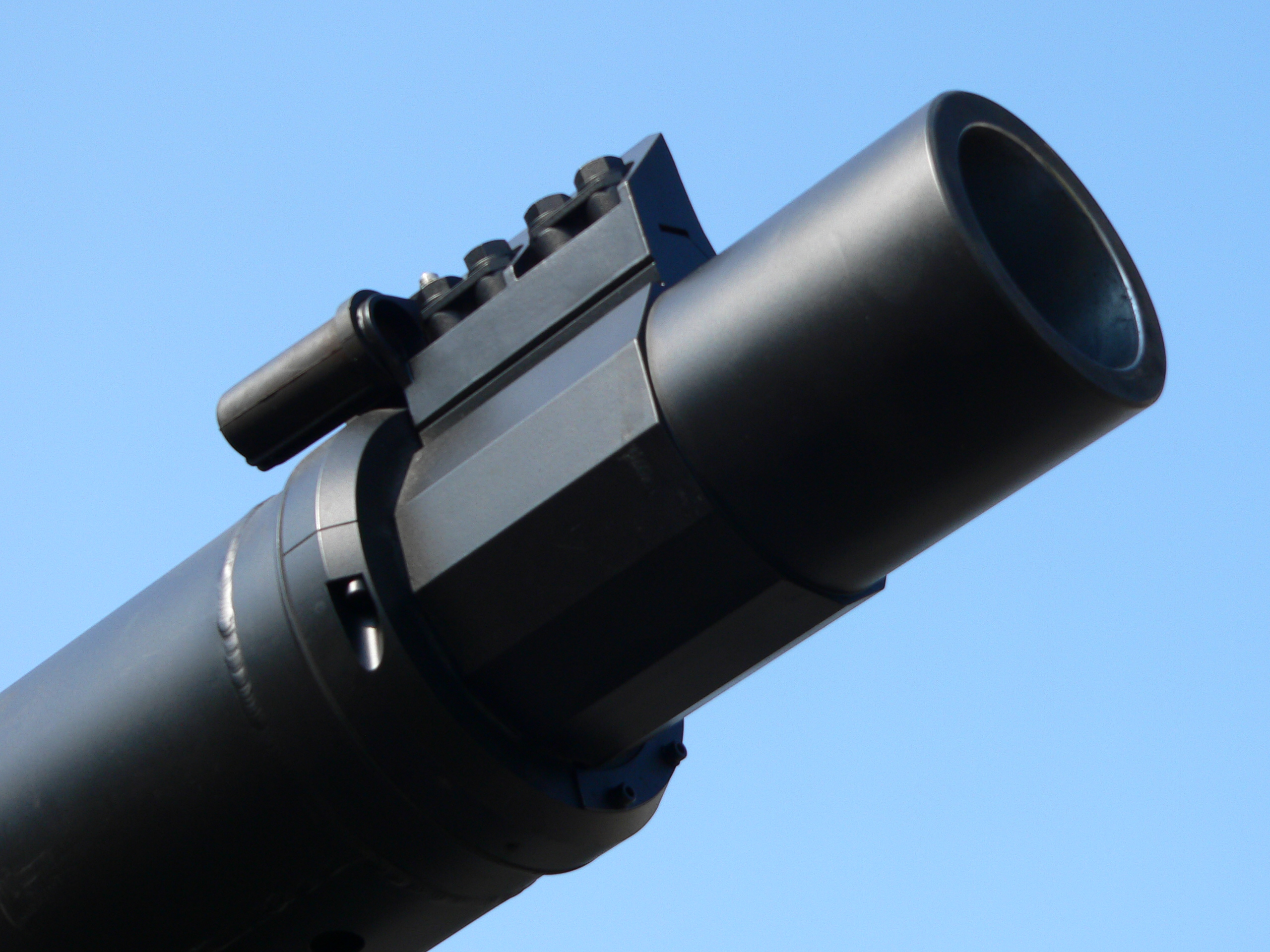 Leclerc main battle tank Military parade, Avenue des Champs-Élysées (Paris), 14 July 2006